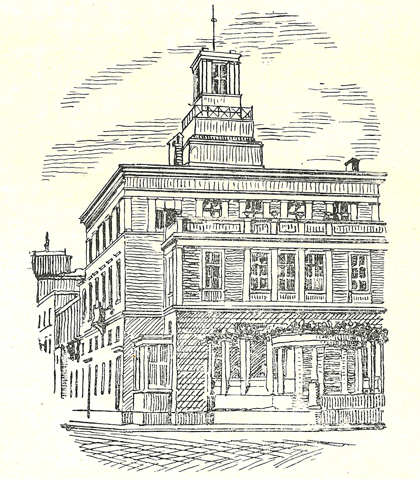 Former house of student fraternity Corps Suevia München, Adelgundenstrasse 33, Munich/Bavaria, Germany